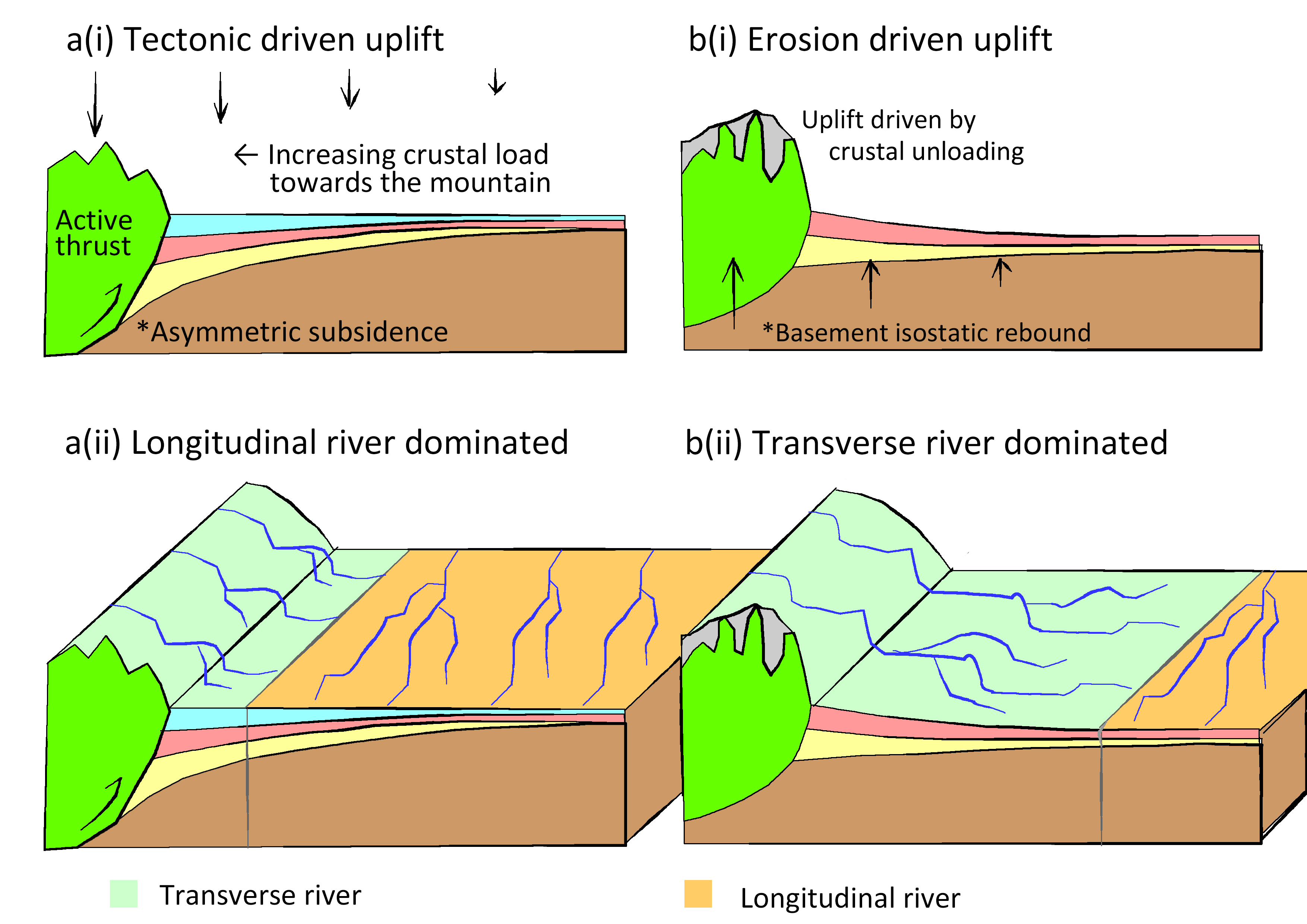 Rivers configuration and uplifting style. Modified after Burbank, 1999.